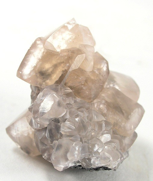 Smithsonite Locality: Tsumeb Mine (Tsumcorp Mine), Tsumeb, Otjikoto (Oshikoto) Region, Namibia (Locality at ) Size: 3.9 x 2.8 x 2.3 cm. Smithsonite crystals to over a centimeter along the edge! They have a wonderful silky luster, and a light cream color. Ex Gary Hansen.